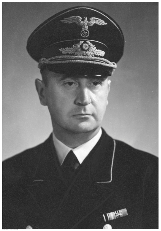 President of the Office of Main Economic in the German-occupied (Generalgouvernement) Walter Emmerich (1895-1967).